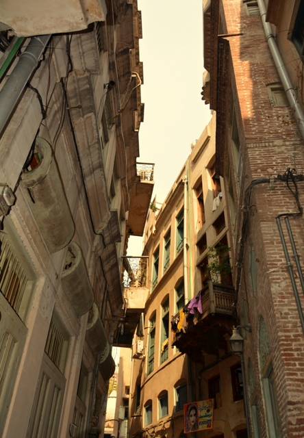 Gali Surjan Singh This is a photo of a monument in Pakistan identified as the PB-105-A